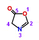 Chemical structure of the 5-(4H)-oxazolone